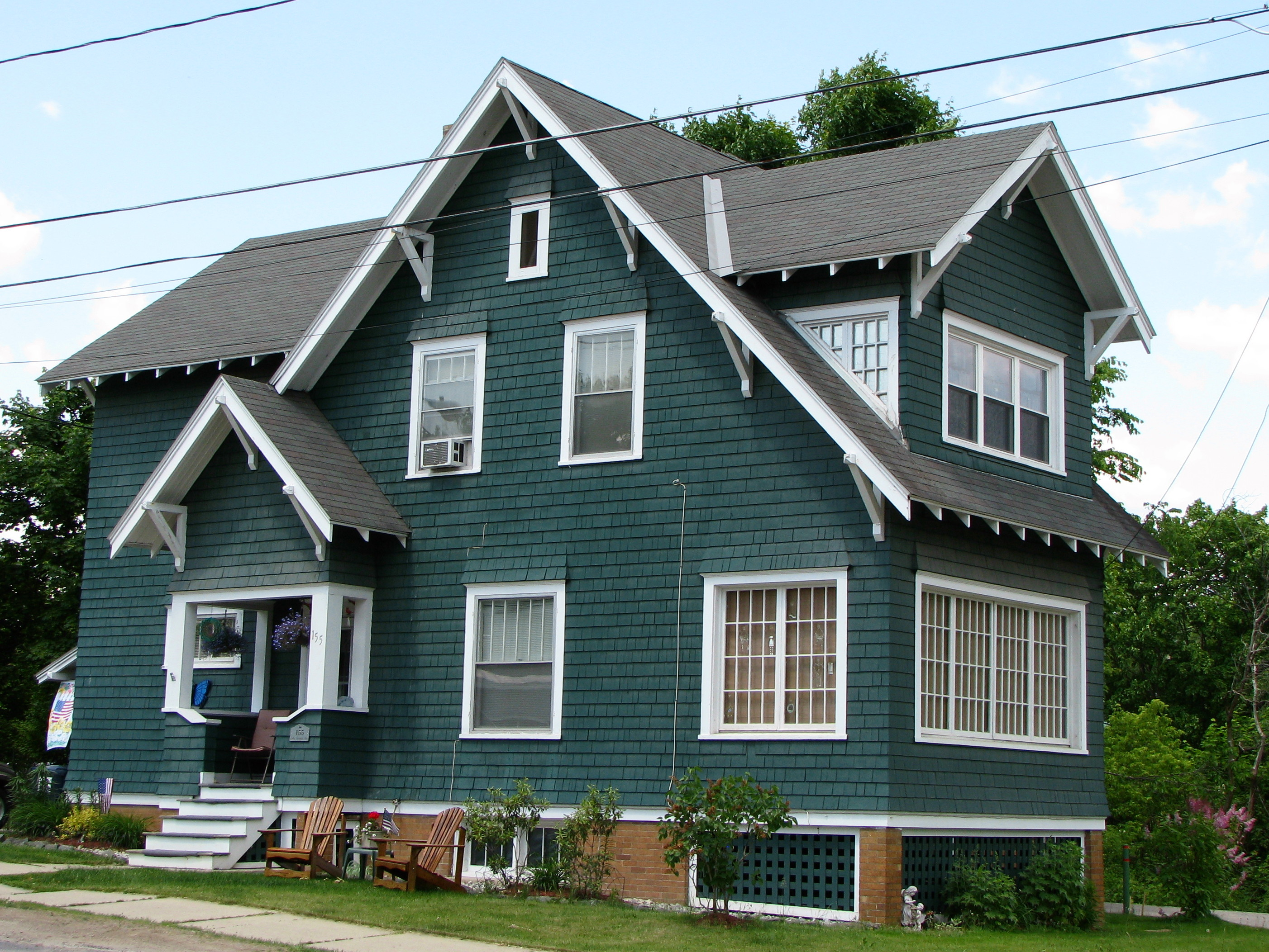 Mill Management Housing, Ticonderoga, New York